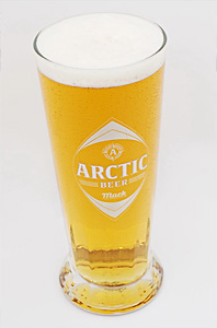 Arctic Beer from the Mack brewery in Tromsø, Norway